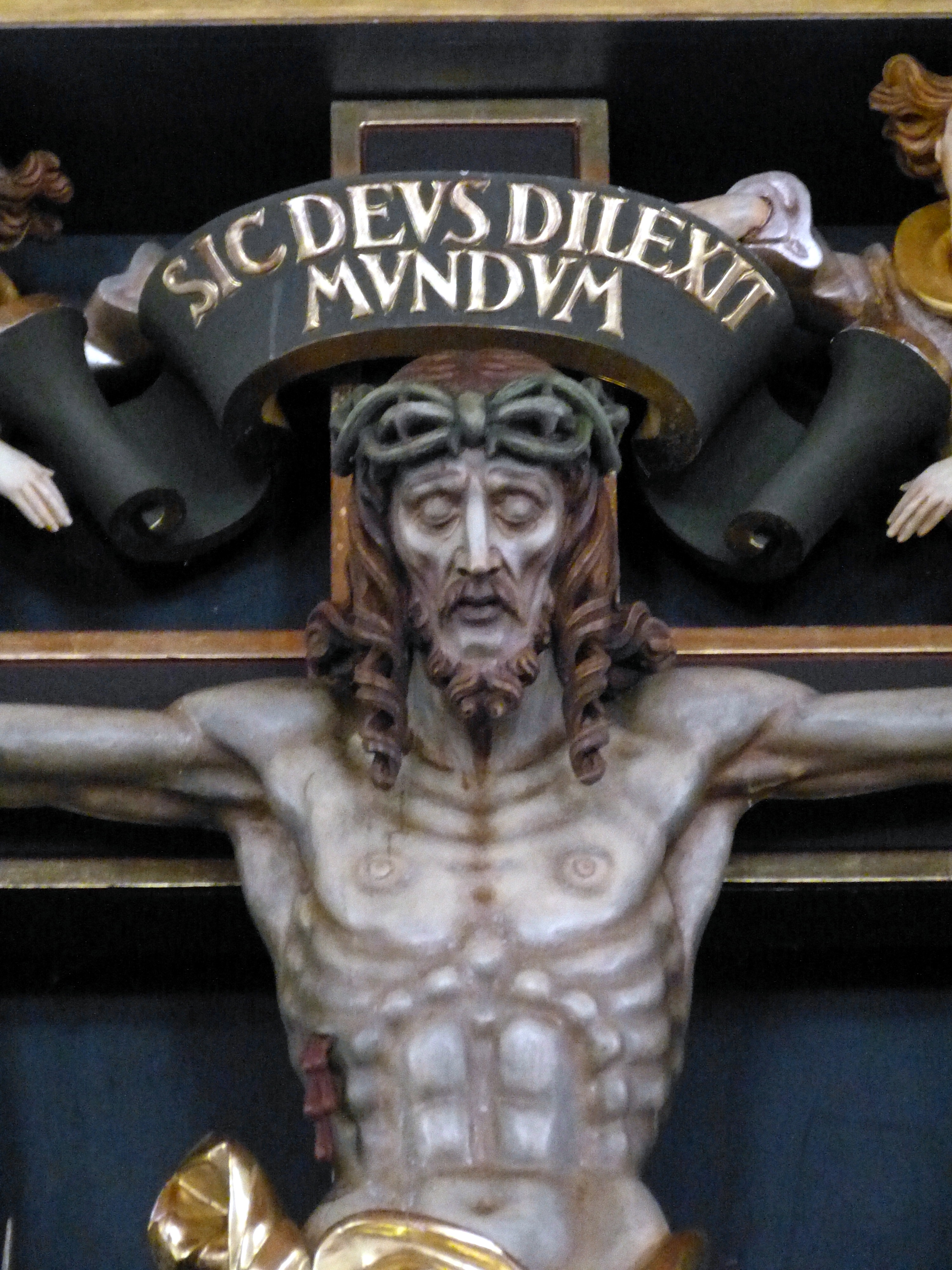 Vorderweißenbach ( Upper Austria ). Ss. Peter and Paul parish church: Altar of the Crucifixion ( 1943 ) - Detail: Crucified Christ with latin quotation of John 3:16.